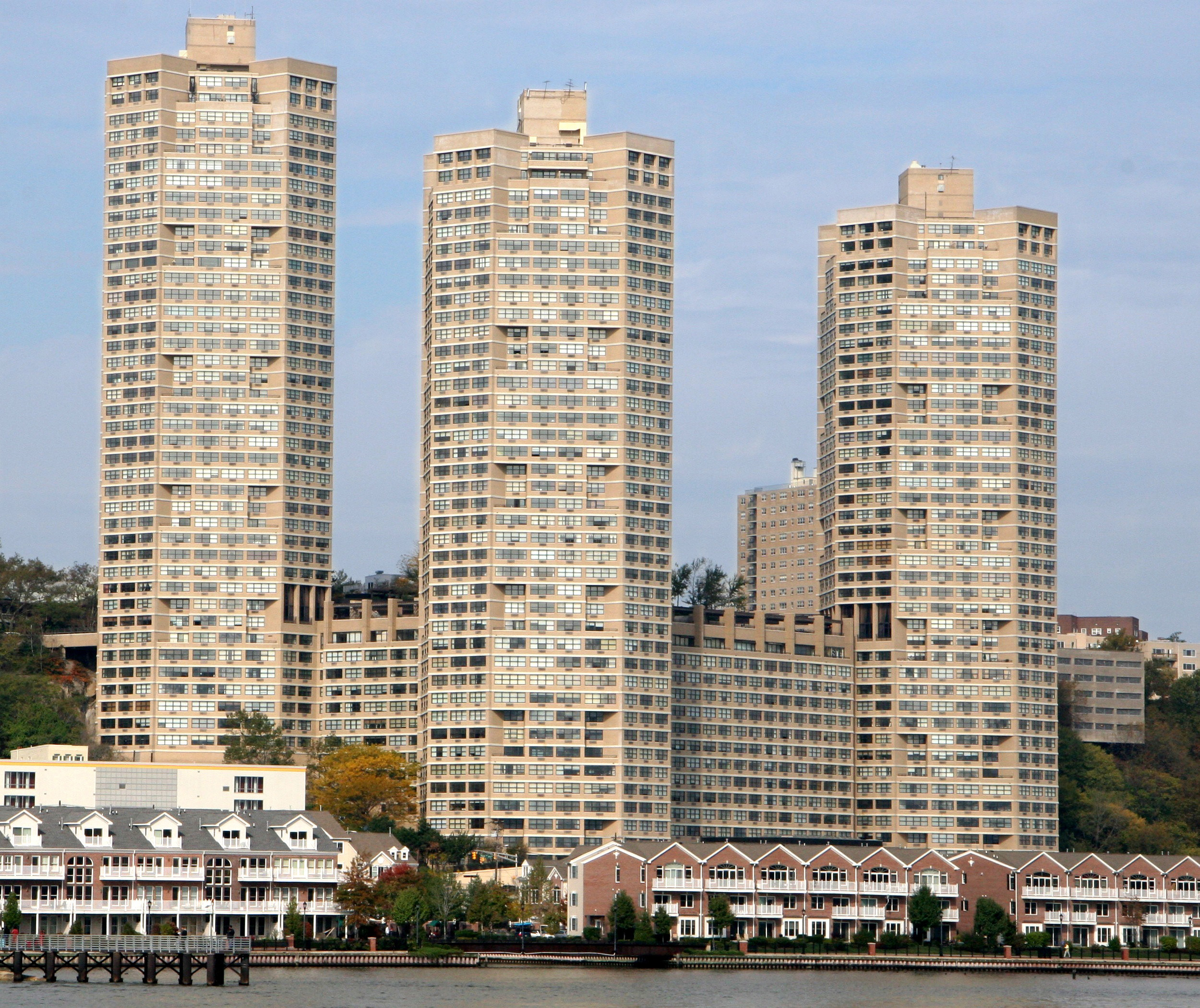 View of the Galaxy Towers in Guttenberg, New Jersey from the Hudson River.